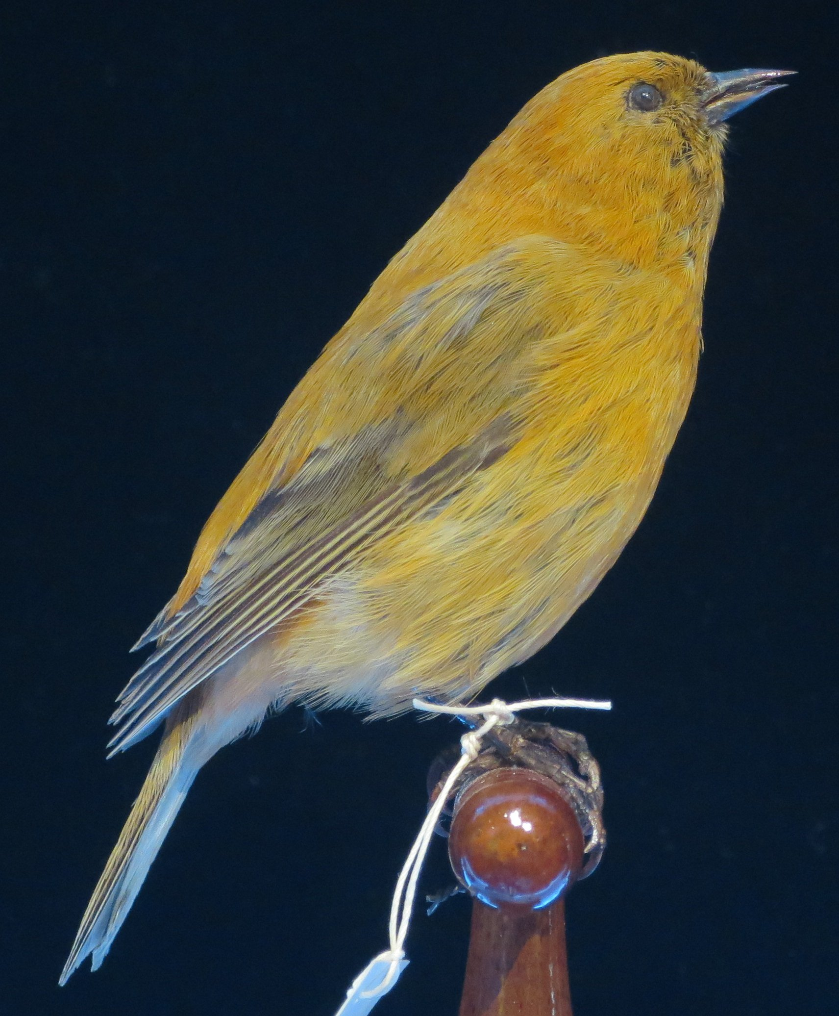 Loxops ochracea Roths, male (Maui 'akepa), Bishop Museum, Honolulu